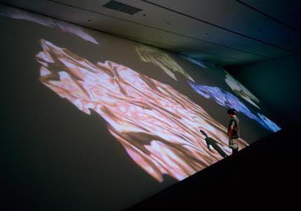 Image of Rock Formation installation at Denver Art Museum by Jennifer Steinkamp